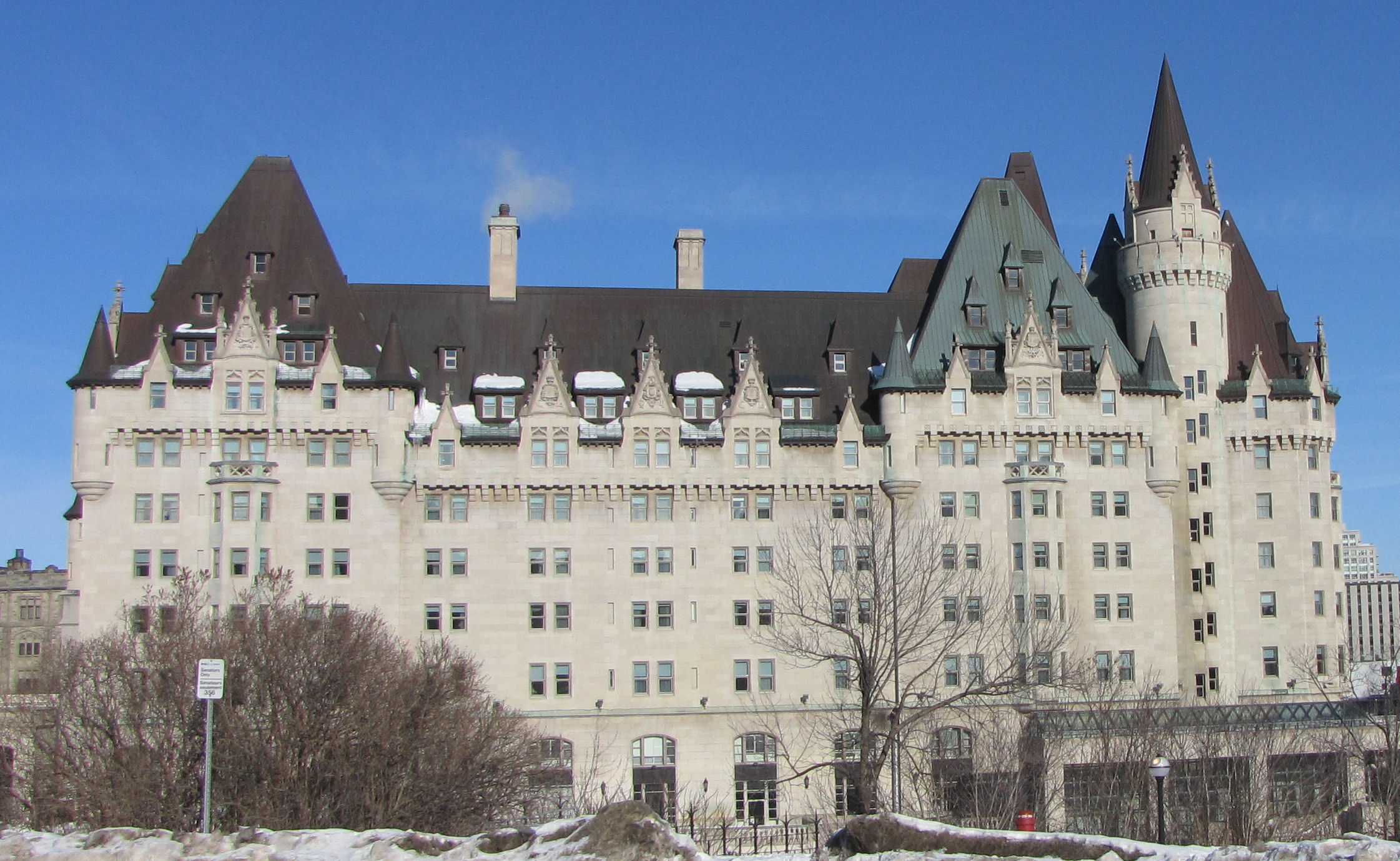 Fairmont Chateau Laurier Hotel from Parliament Hill, Ottawa, Ontario